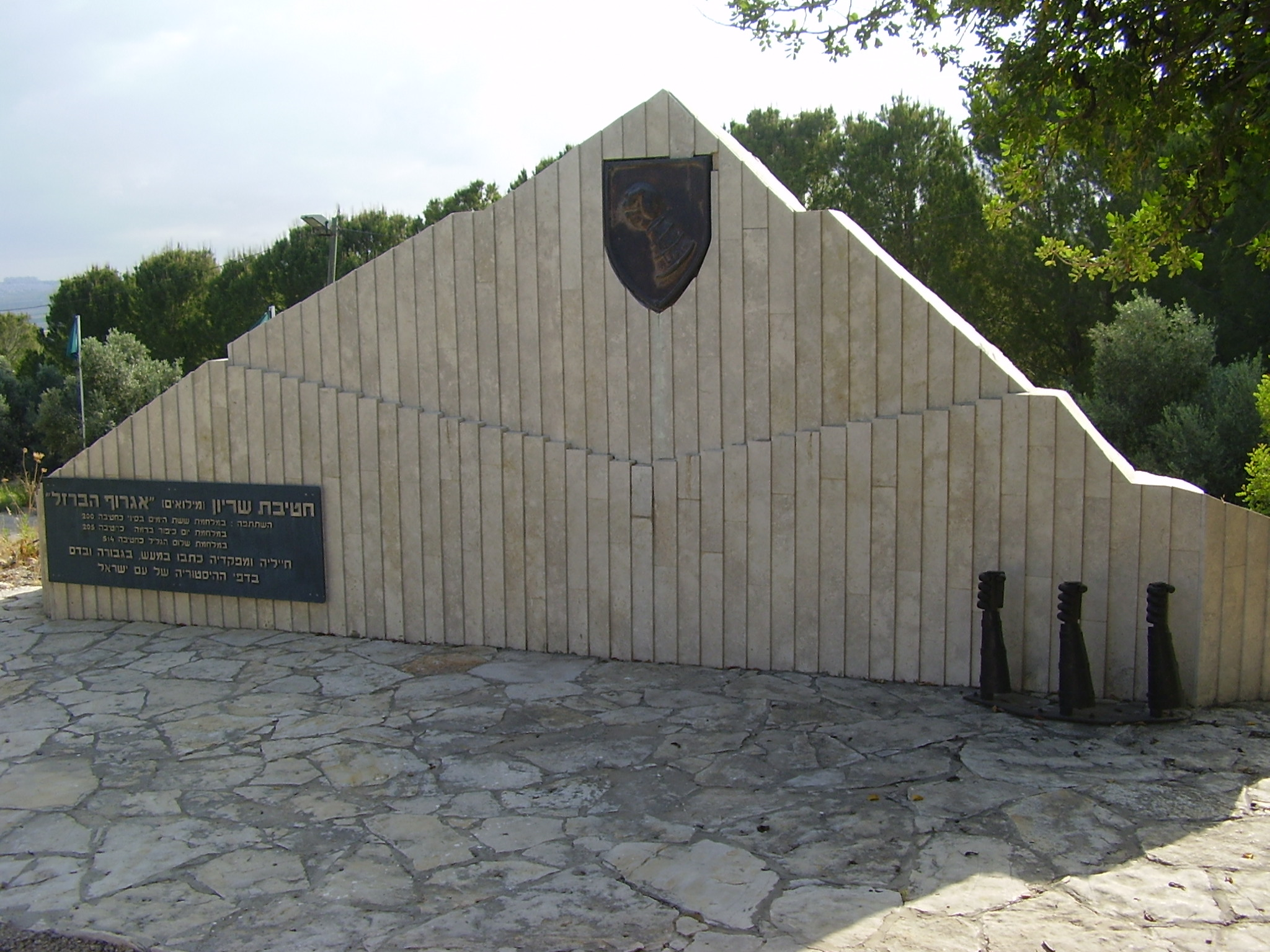 brigade 200 memorial in latrun